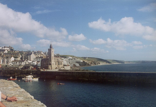 Porthleven. The Bickford-Smith Institute, with its imposing 70ft clock tower, was built in 1883 as a Literary Institute by William Bickford-Smith of Trevarno. The building featured in the national press in 1989, when pictures showed the tower engulfed by enormous waves. Porthleven Sands may be seen in the background.